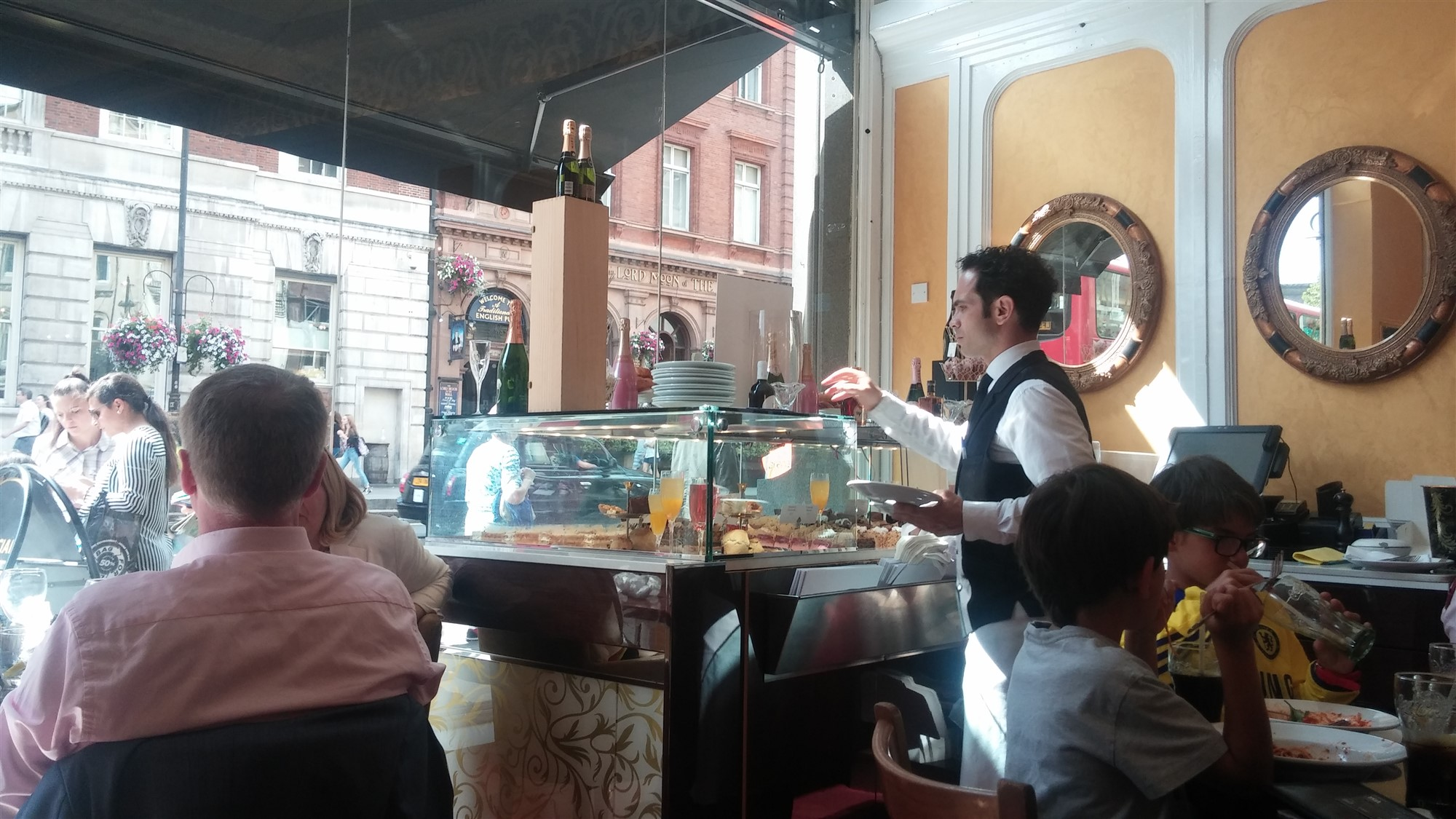 Waiter at Clarence Pub, near parliament in London, England